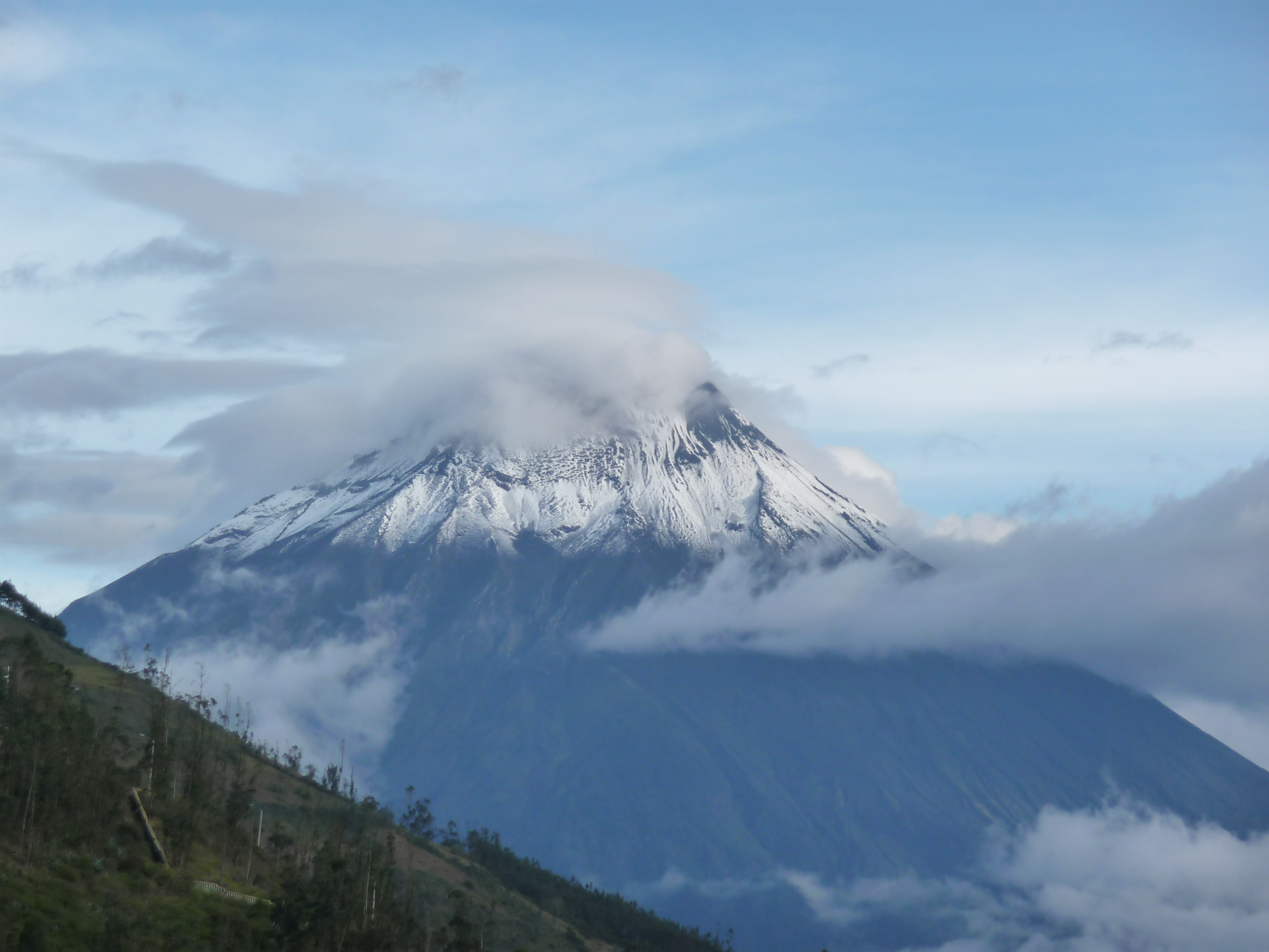 Tungurahua snow line, October 2008.